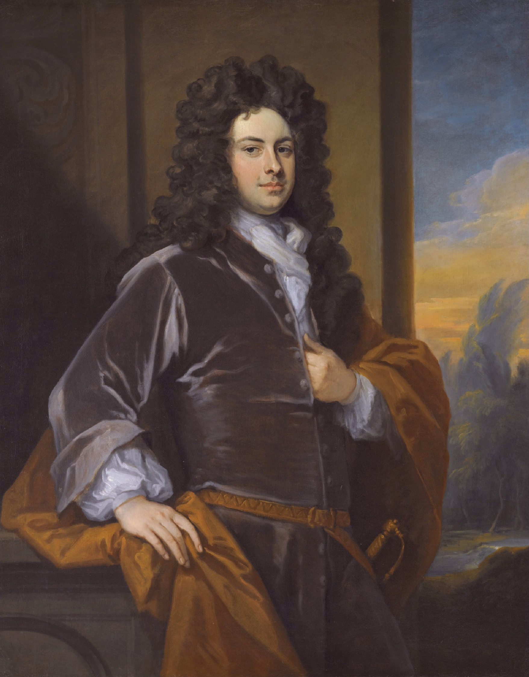 James Bertie, 1st Earl of Abingdon (1653-1699) oil on canvas 127 x 100.5 cm